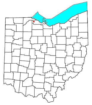 Locator map of the unincorporated community of Martin in Ottawa County, Ohio, United States.